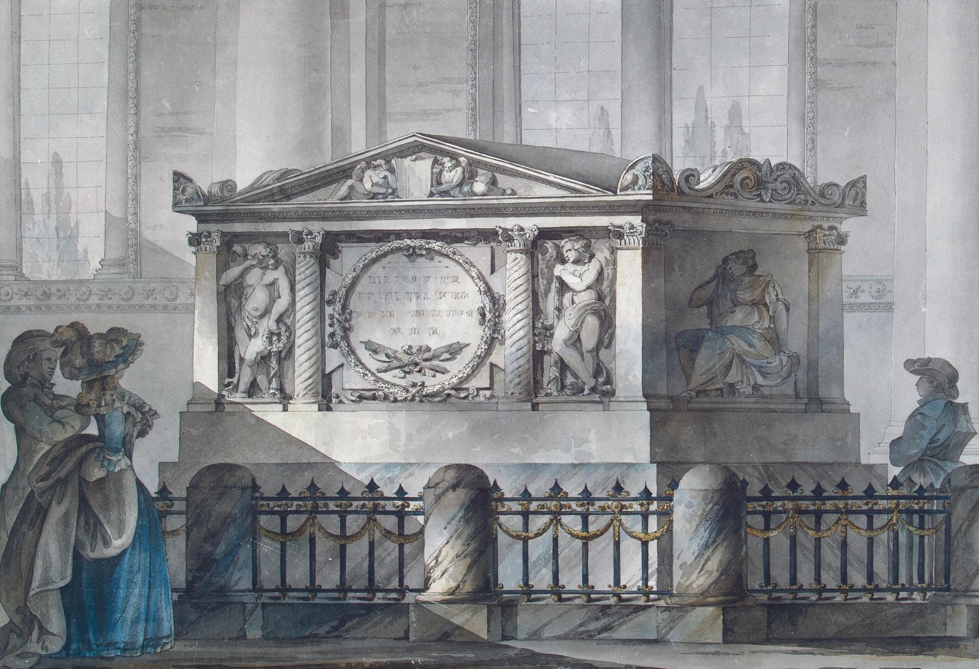 Giacomo Quarenghi. Design of Samuel Greig's tomb in Tallinn, 1790s. Drawings, Pen, brush, Indian ink and watercolour, 48x63 cm. State Hermitage, Source of entry: Leningrad State Purchasing Commission, 1946